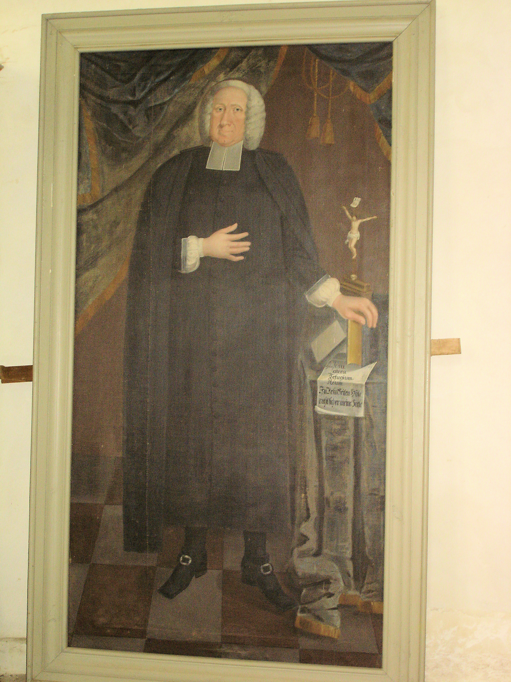 Painting in the church in Lärz, Mecklenburg, Germany